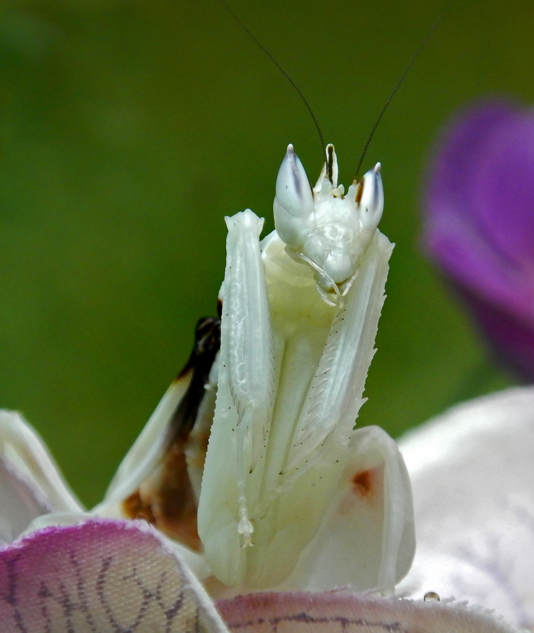 Hymenopus coronatus (Orchid Mantis) alive. previous legs and head. Natural History Museum of Lille